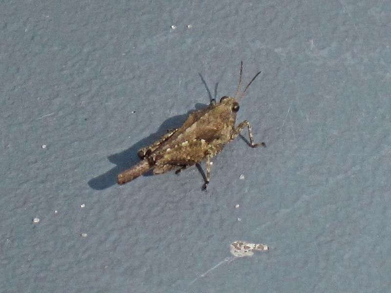 Tetrix ceperoi (Tetrigidae sp.), Texel, the Netherlands